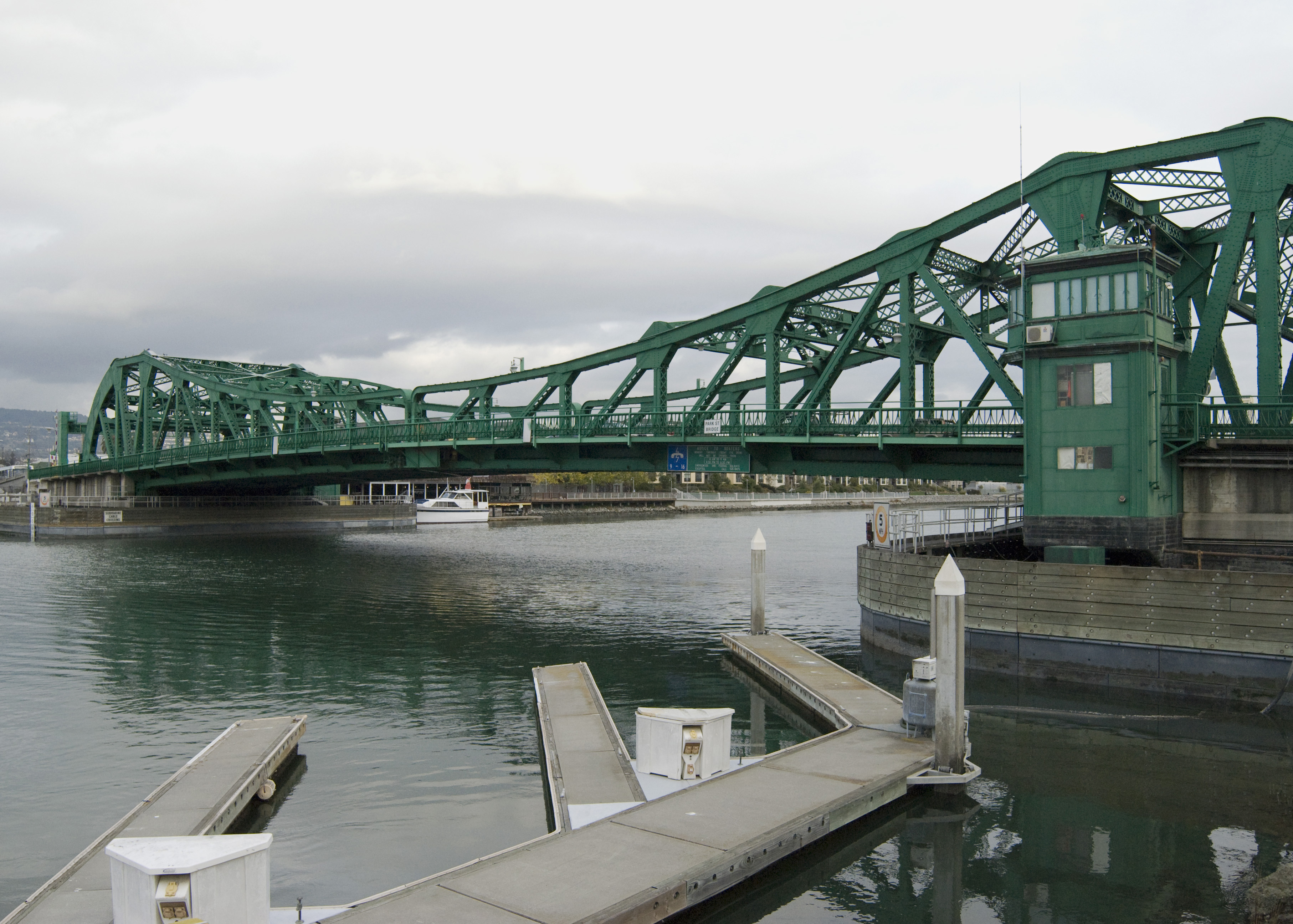 Park Street Bridge, Oakland–Alameda, California